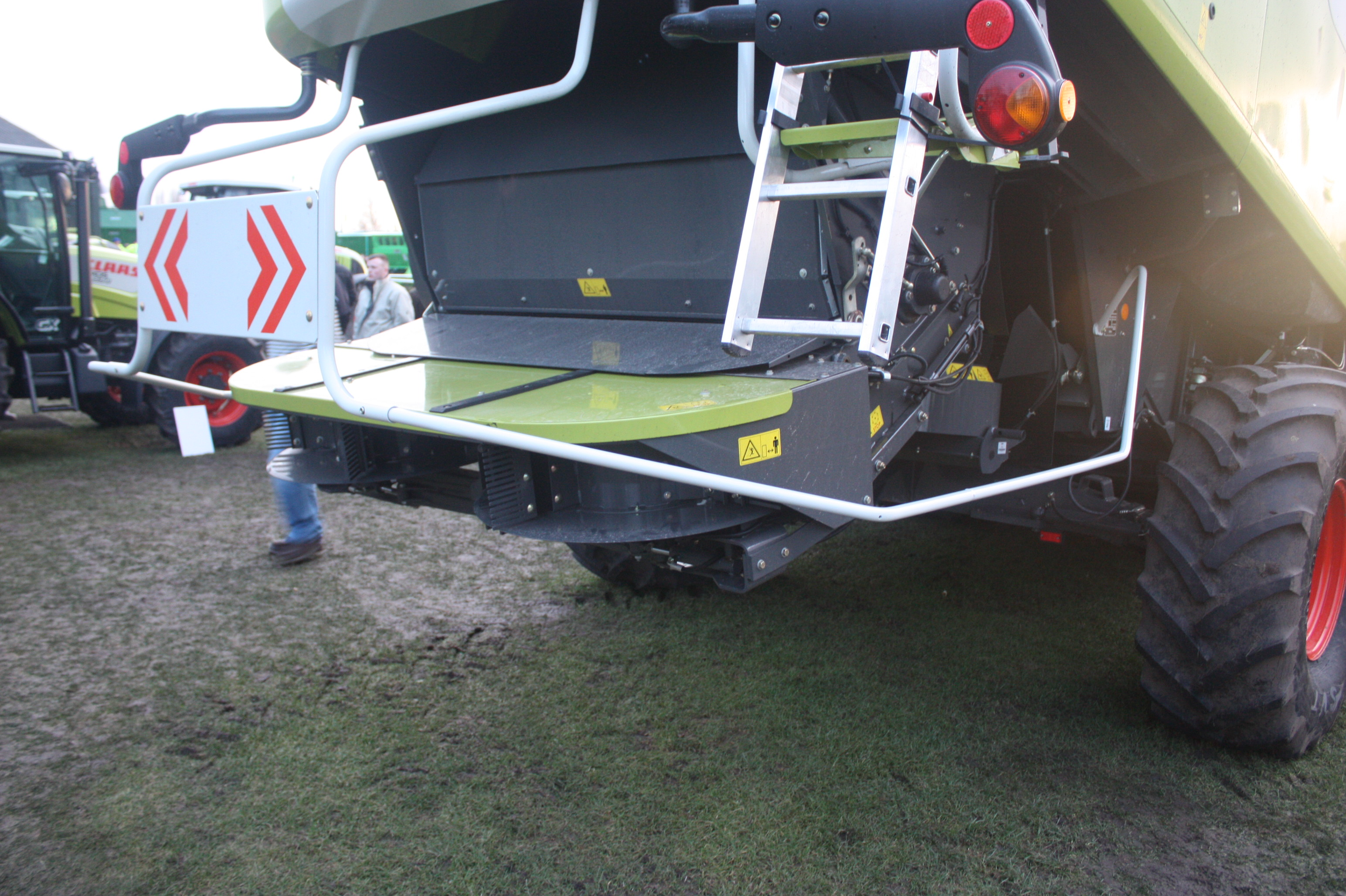 The straw chopper fitted on a Claas Lexion combine at the LAMMA show (Lincolnshire Agricultural Machinery Manufacturers Association Show) in 2009, England